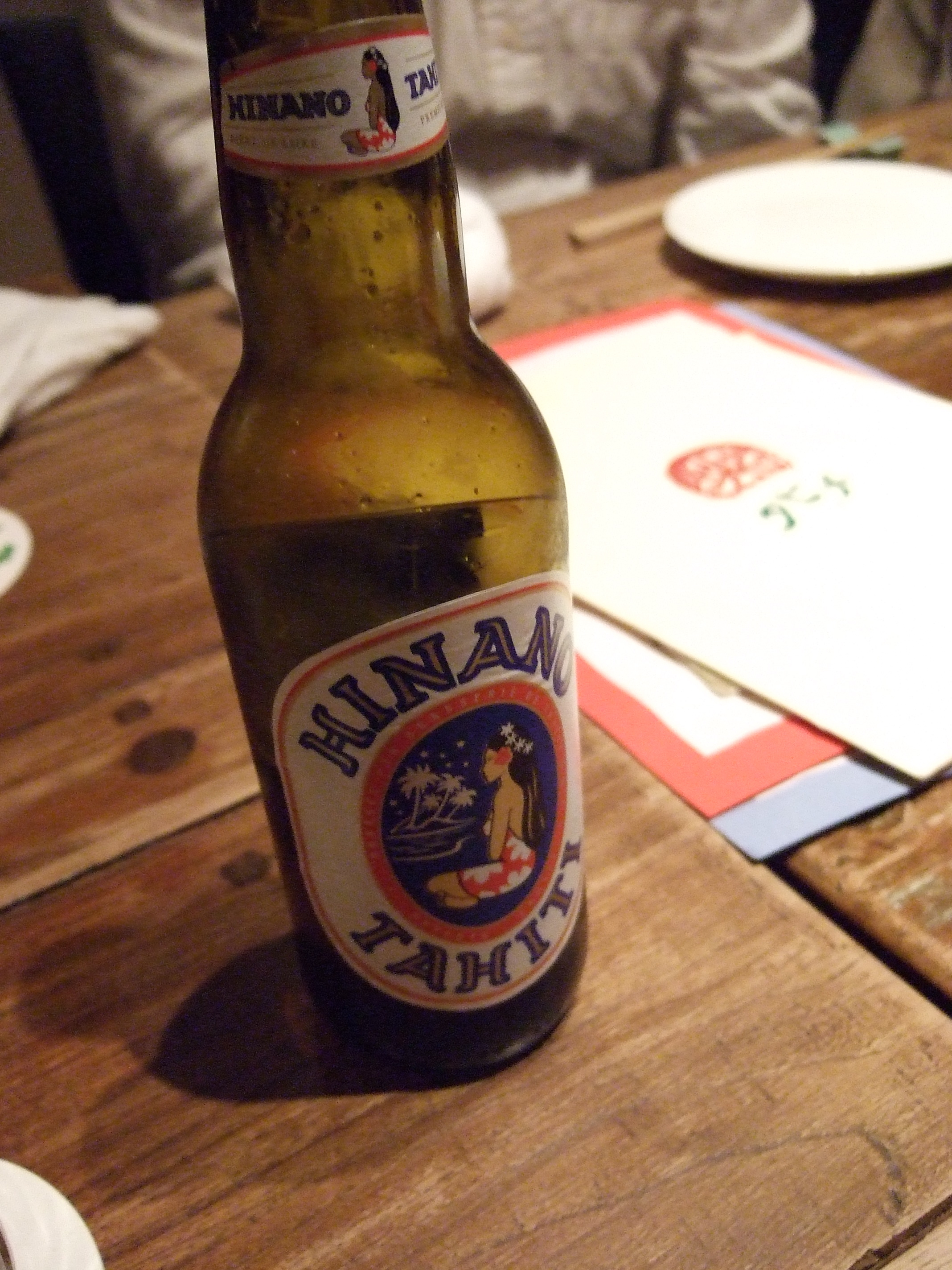 At the Asian restaurant, Tahiti, Aoyama, Tokyo.